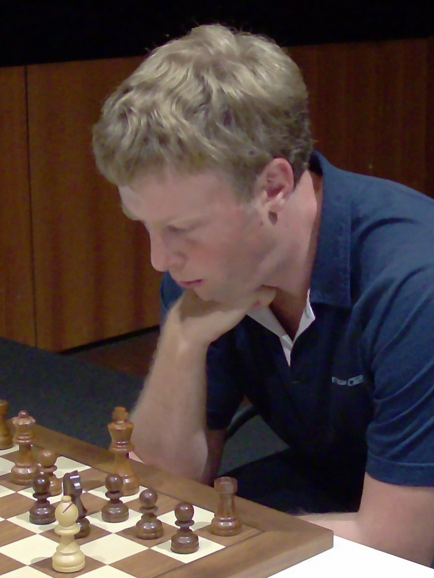 Pavel Tregubov, Russian Chess grandmaster